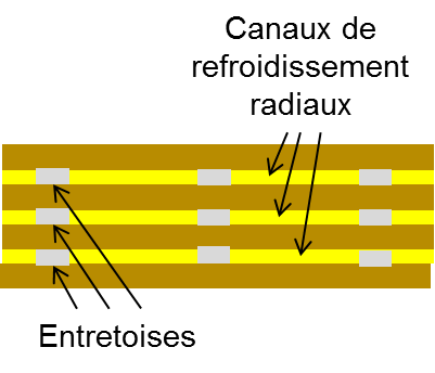 Radial ducts and spacers of on a transformer winding.